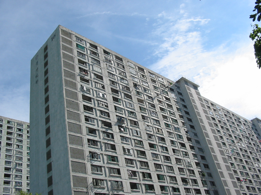 Block 10, Wong Chuk Hang Estate.